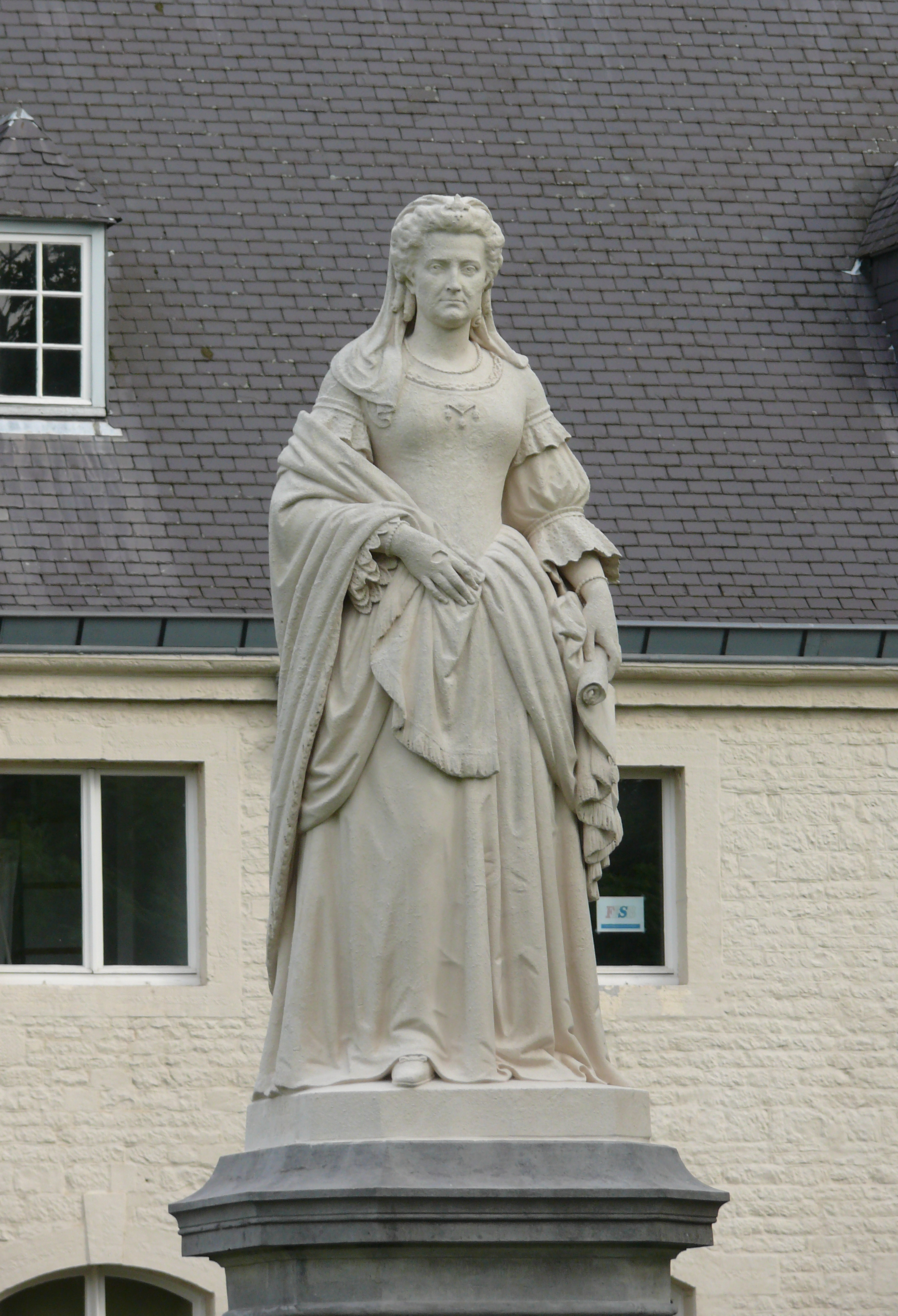 Statue of Isabelle Brunelle by Willem Geefs in Namur.